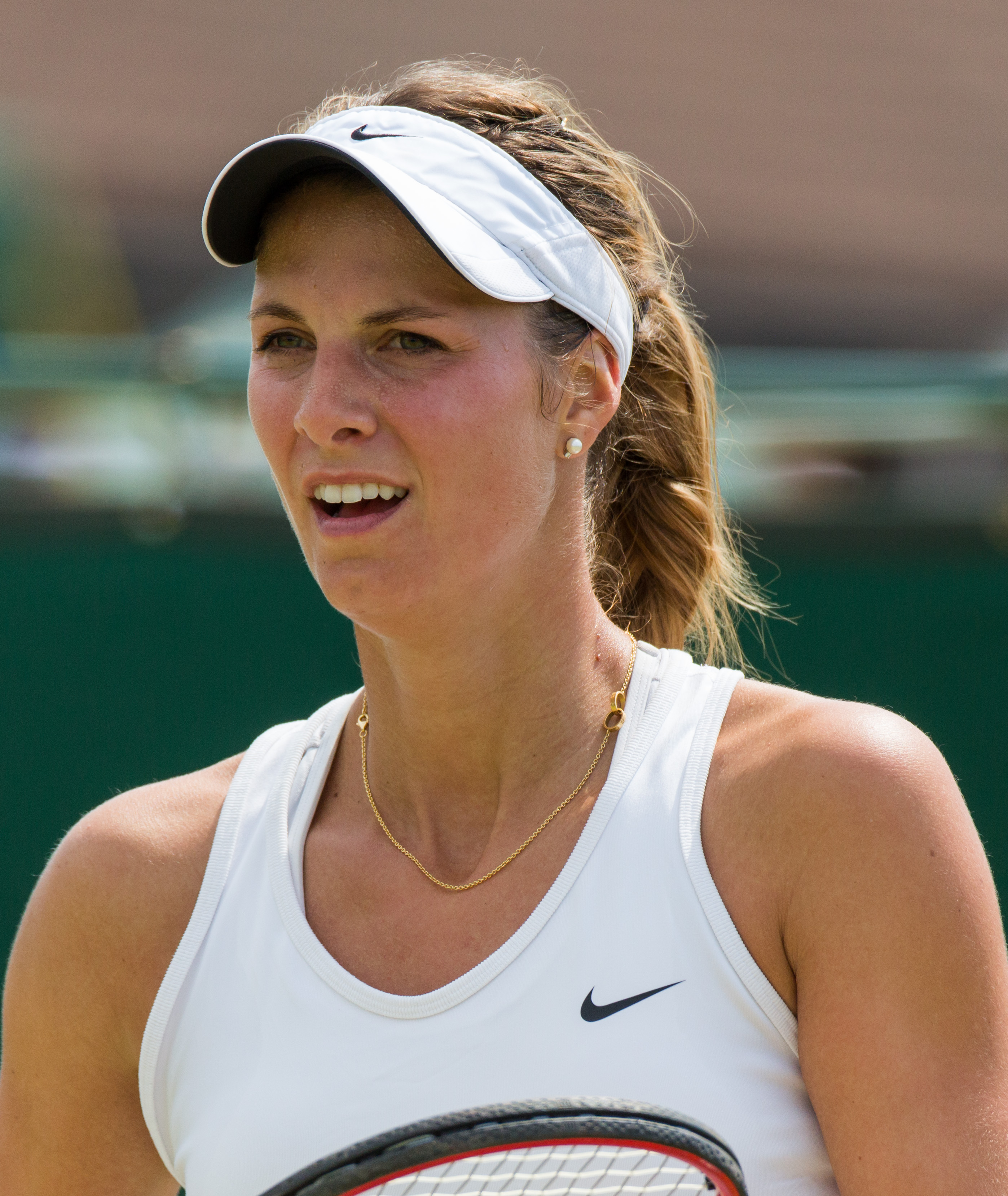 Mandy Minella competing in the second round of the 2015 Wimbledon Qualifying Tournament at the Bank of England Sports Grounds in Roehampton, England. The winners of three rounds of competition qualify for the main draw of Wimbledon the following week.